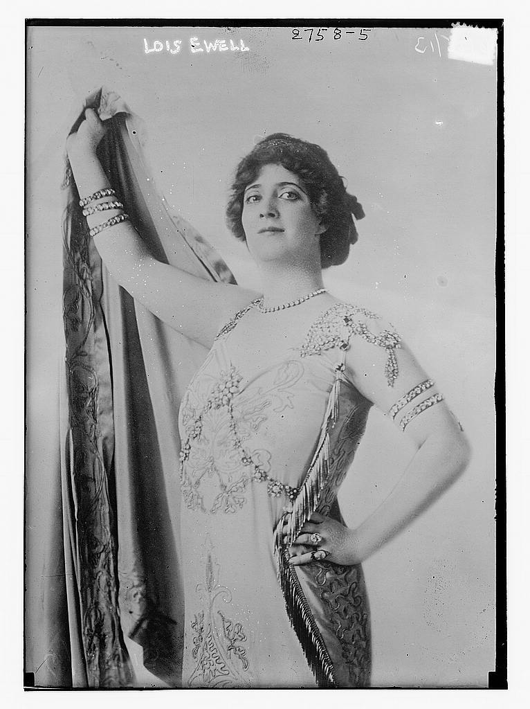 Bain News Service,, publisher. Lois Ewell [no date recorded on caption card] 1 negative : glass ; 5 x 7 in. or smaller. Notes: Title from unverified data provided by the Bain News Service on the negatives or caption cards. Forms part of: George Grantham Bain Collection (Library of Congress). Format: Glass negatives. Repository: Library of Congress, Prints and Photographs Division, Washington, D.C. 20540 USA, General information about the Bain Collection is available at Persistent URL: Call Number: LC-B2- 2758-5